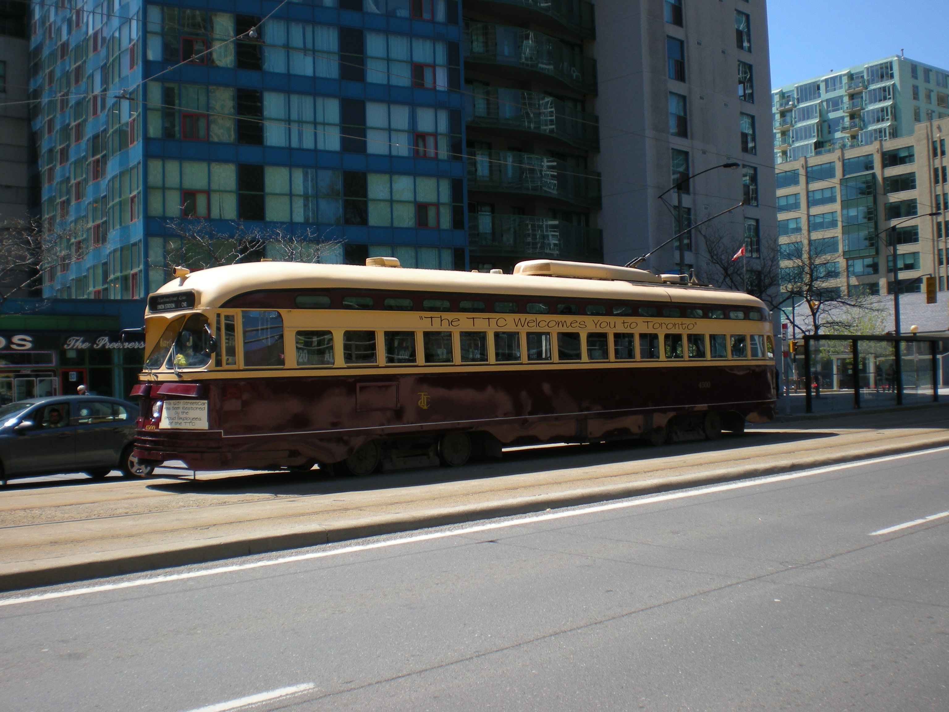 Toronto Transit Commission PCC #4500 in operation on the Toronto Transit Commission's 509 Harbourfront line.